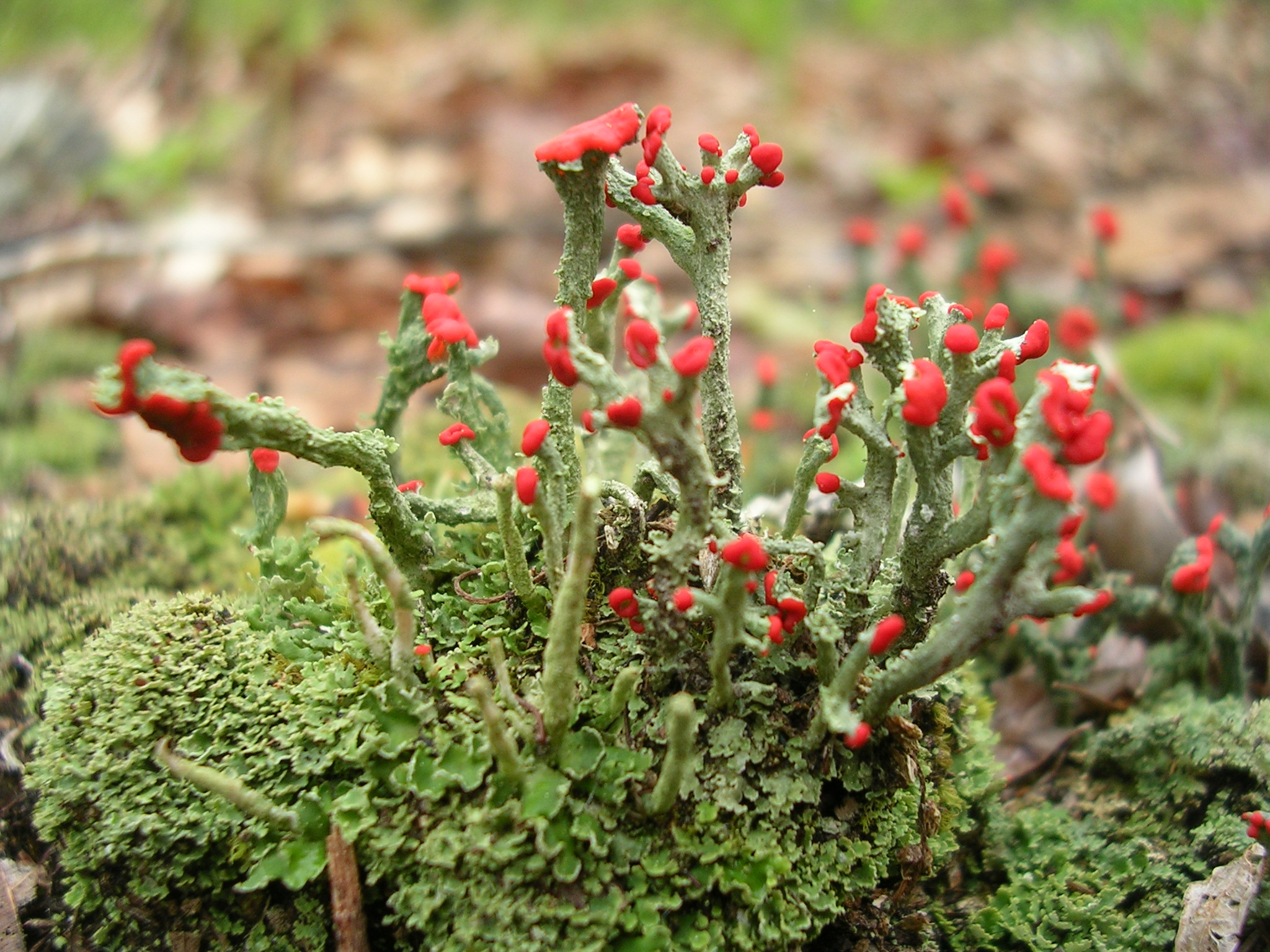 Cladonia cristatella (British Soldier), found in the woods of Rindge, NH.